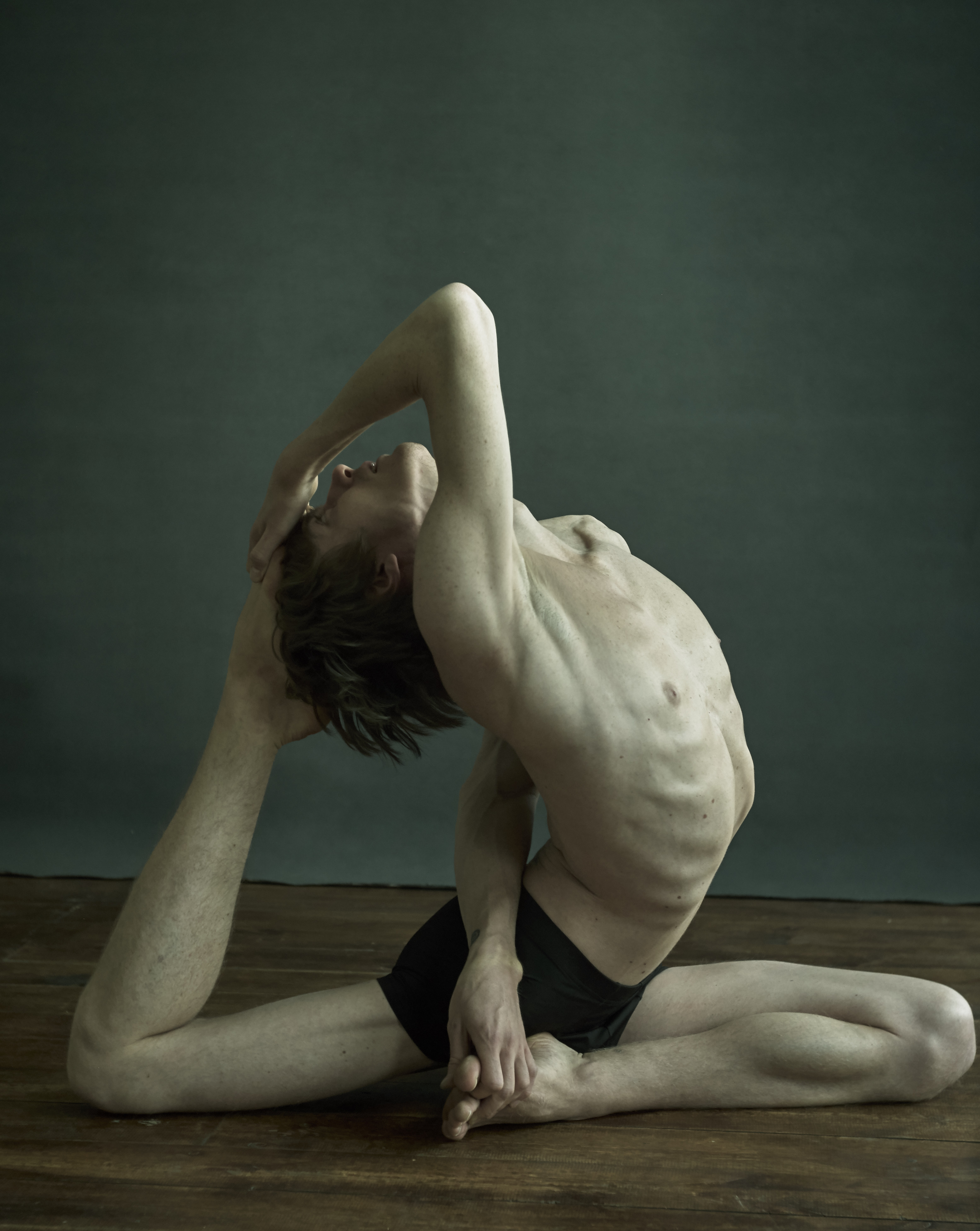 Yogasana rajakapotasana or king pigeon, dove posture, asana by alexey baykov